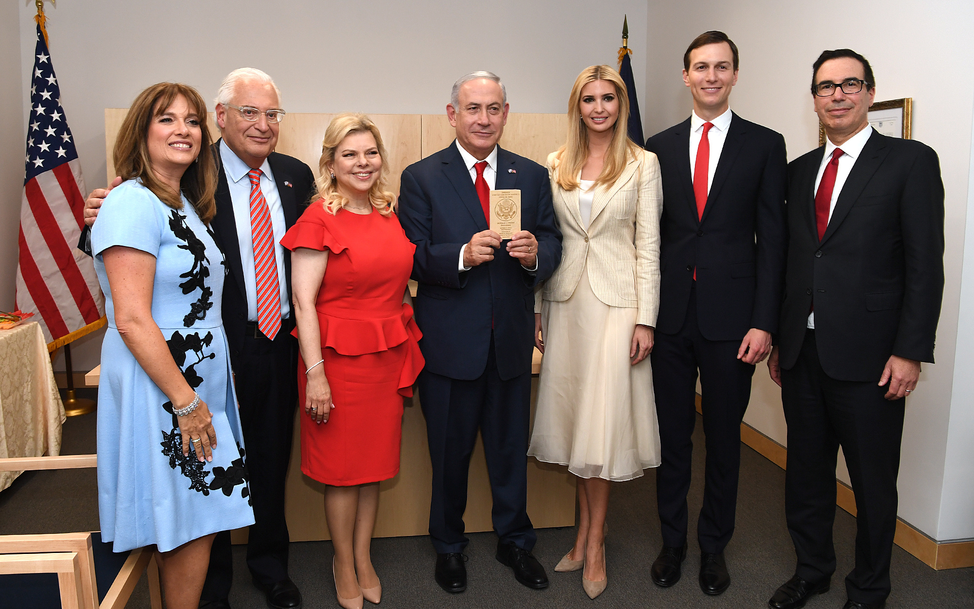 Embassy Dedication Ceremony